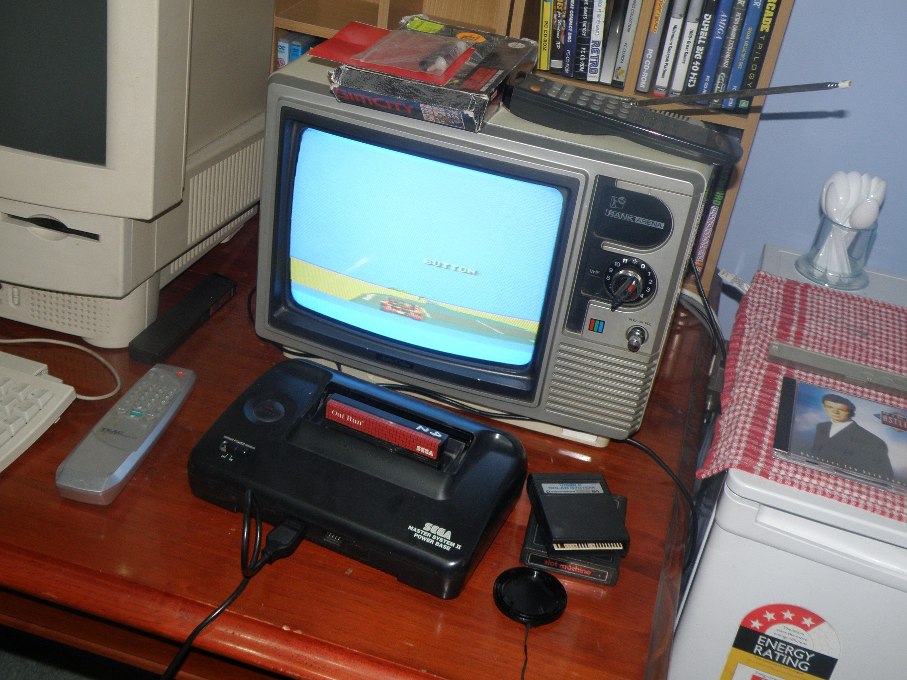 A Sega Master System 2, a old Rank-Arena television set, and a two old video-game cartridges for other systems.